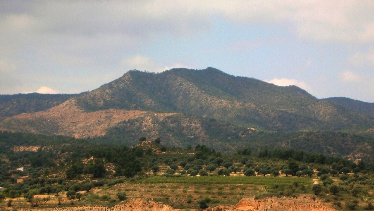 Puntal dels Escambrons, a 500 metre high mountain near Riba-Roja d'Ebre